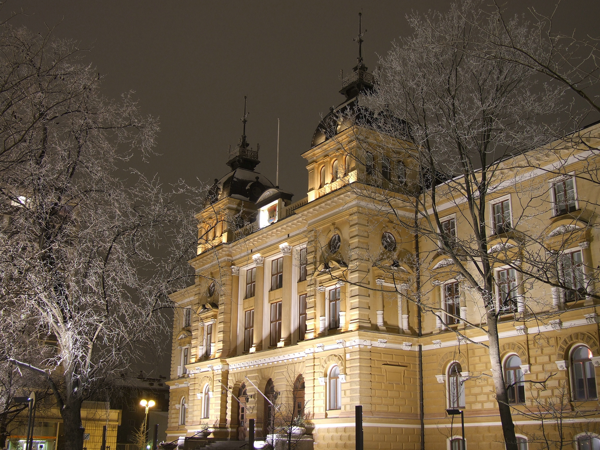 The Oulu City Hall in Oulu, Finland, in the evening. The City Hall was designed by Swedish architect J.E.Stenberg in 1885. Weather: −5 °C.